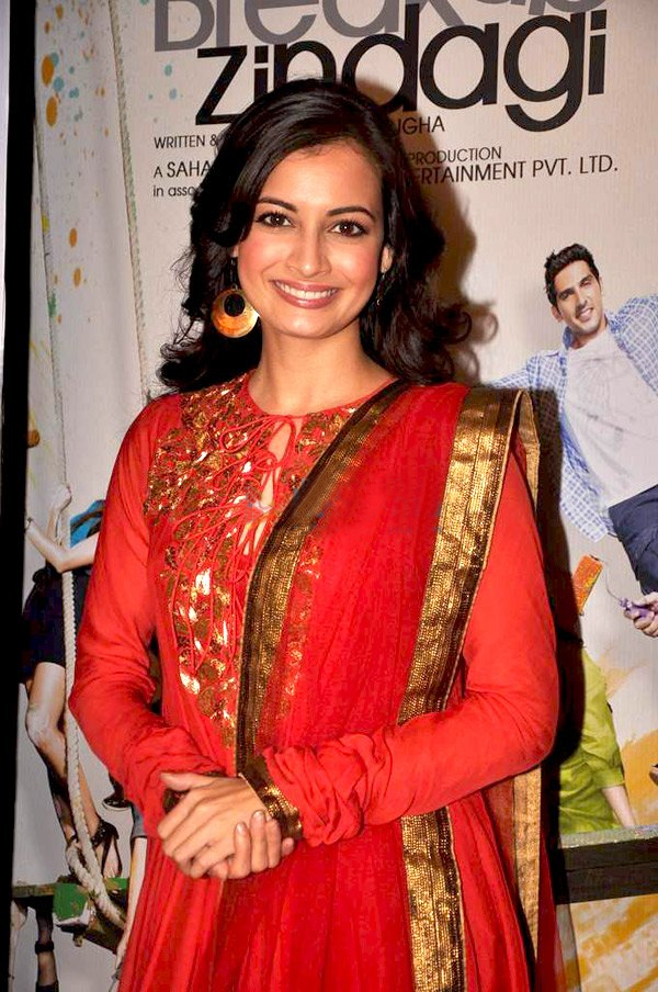 Diya Mirza at Love Breakups Zindagi promotional event